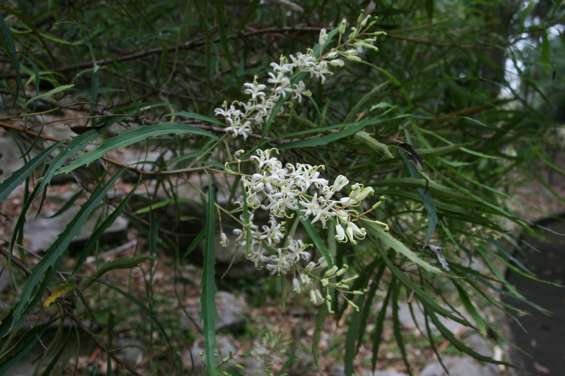 Lomatia myricoides, Joseph Banks Nature Reserve